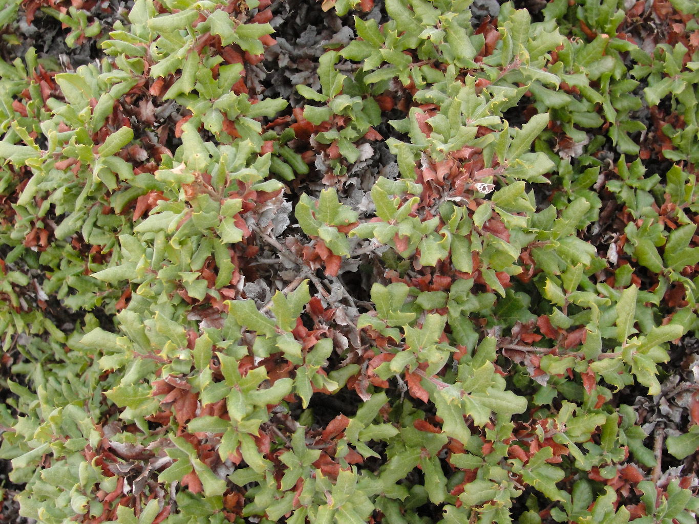 Quercus durata var. durata on Mt. Diablo, California, USA